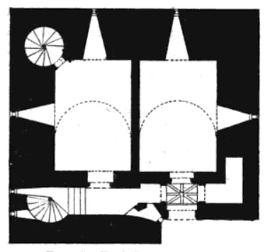 This is a floor plan of the Towie Barclay Castle